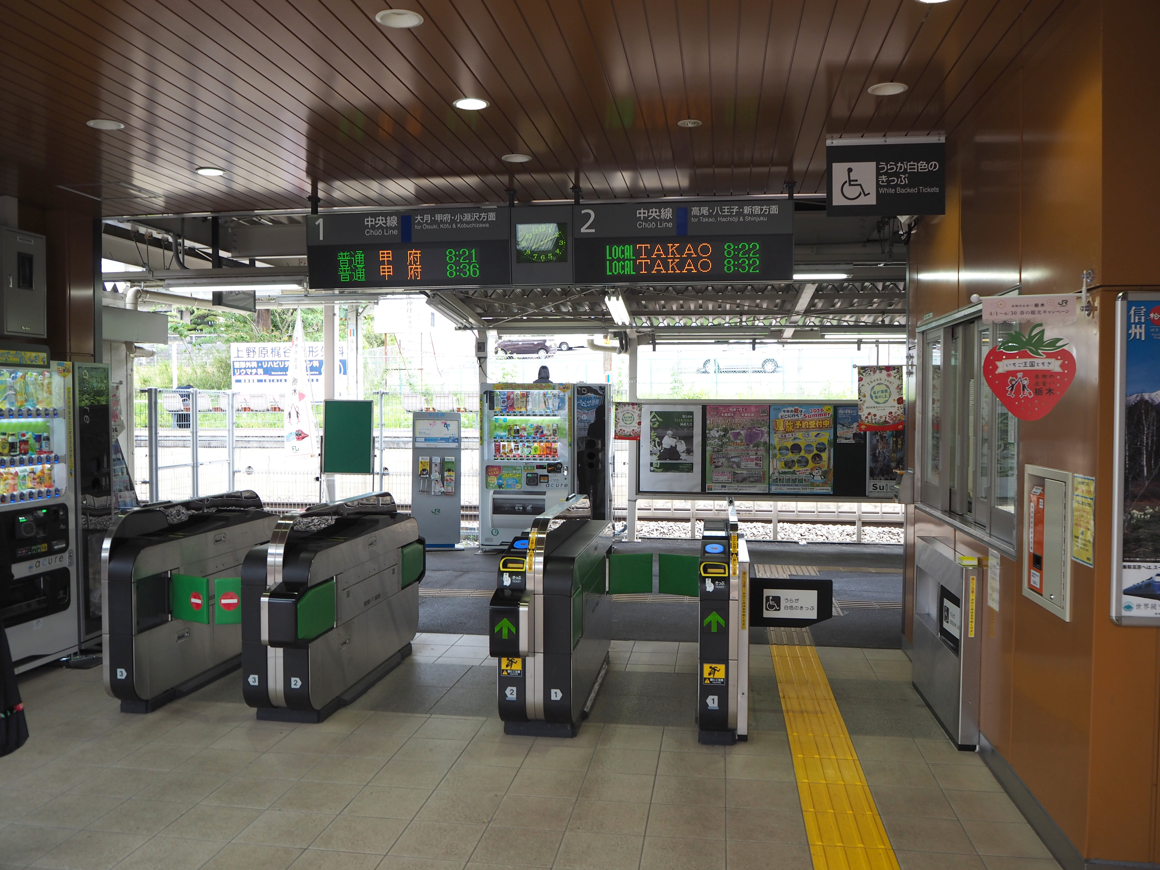 Fujino Station